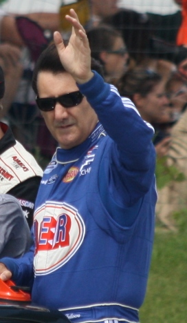 NASCAR driver Ron Fellows during driver introductions at the 2010 Bucyros 200 the first Nationwide Series race at Road America.